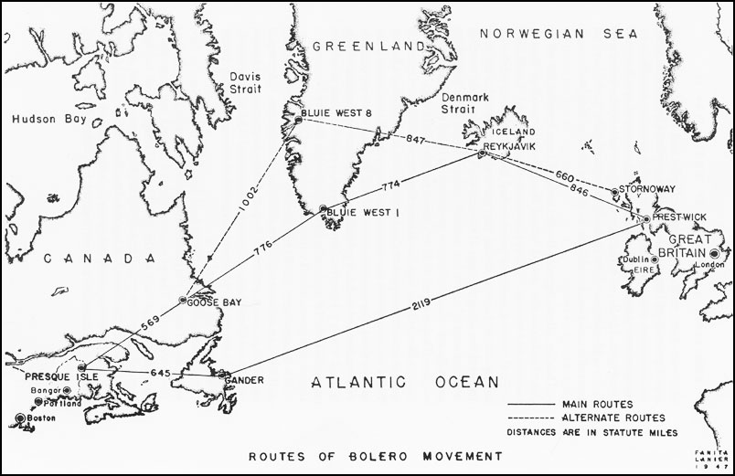 Bolero Route from Canada to England during 2WW